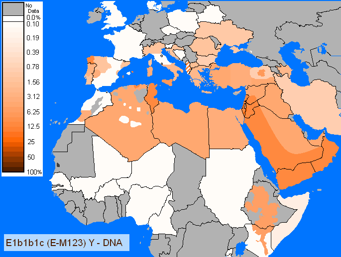 ==Distribution of Y haplotype EM-123 E1b1b1c in North Africa, West Asia and Europe. Data psuedocolored based on data in Table 1. from (Am J Hum Genet. 2004 May; 74(5): 1023–1034.) Regions with stripes indicate data given twice of a region but substantively different values. For albania, the colors indicate Calabrian Albanians or Albanians, For Israel the colors are either Ashkenazi or Sephardic Jews. The map from which the boundaries were derived was rebordered black, bodies of water were recolored blue. The image was painted in paintbrush.